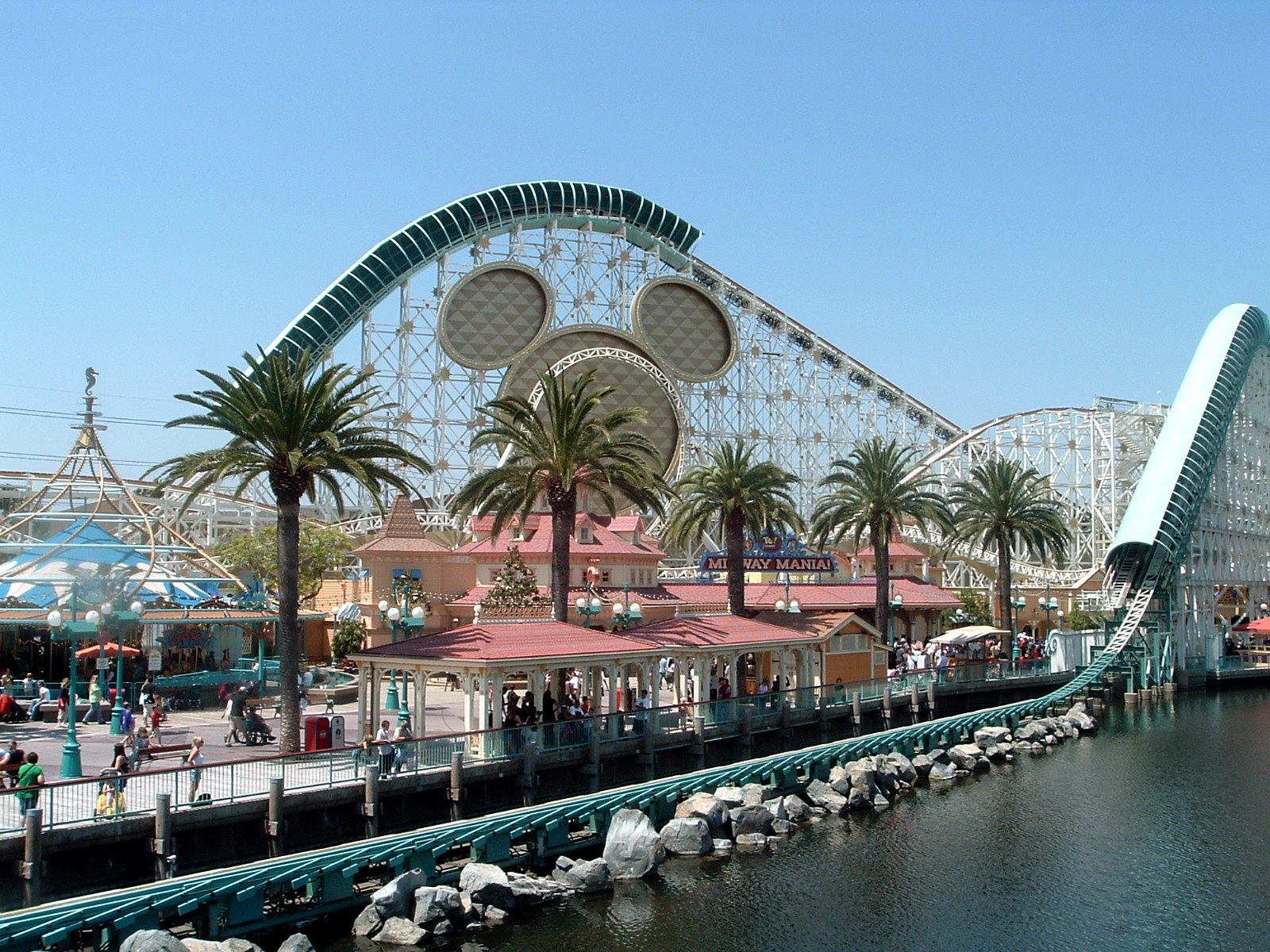 Launch Point for California Screamin'